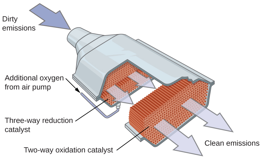 Image or illustration from the book: Chemistry Caption:Missing, please see book Book summary:Chemistry is designed for the two-semester general chemistry course. For many students, this course provides the foundation to a career in chemistry, while for others, this may be their only college-level science course. As such, this textbook provides an important opportunity for students to learn the core concepts of chemistry and understand how those concepts apply to their lives and the world around them. The text has been developed to meet the scope and sequence of most general chemistry courses. At the same time, the book includes a number of innovative features designed to enhance student learning. A strength of Chemistry is that instructors can customize the book, adapting it to the approach that works best in their classroom.